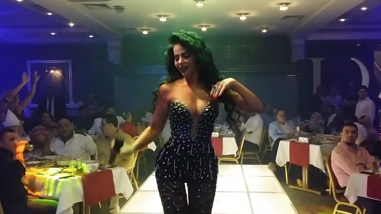 Layal Abboud - September 11, 2016 - Performing Moush Habki (1)